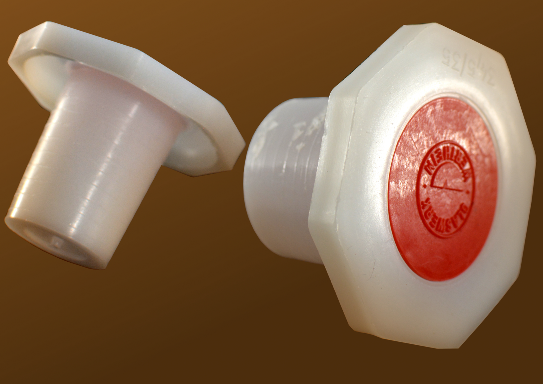 Ground Glass Stoppers, plastic